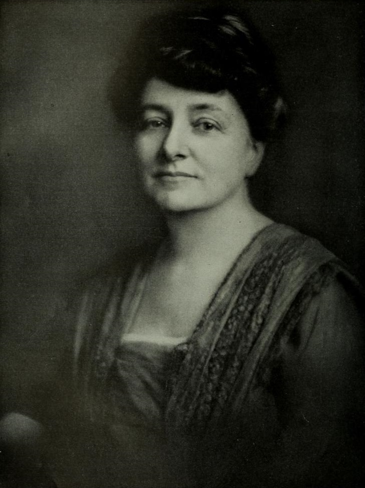 Portrait of Maud Wood Park